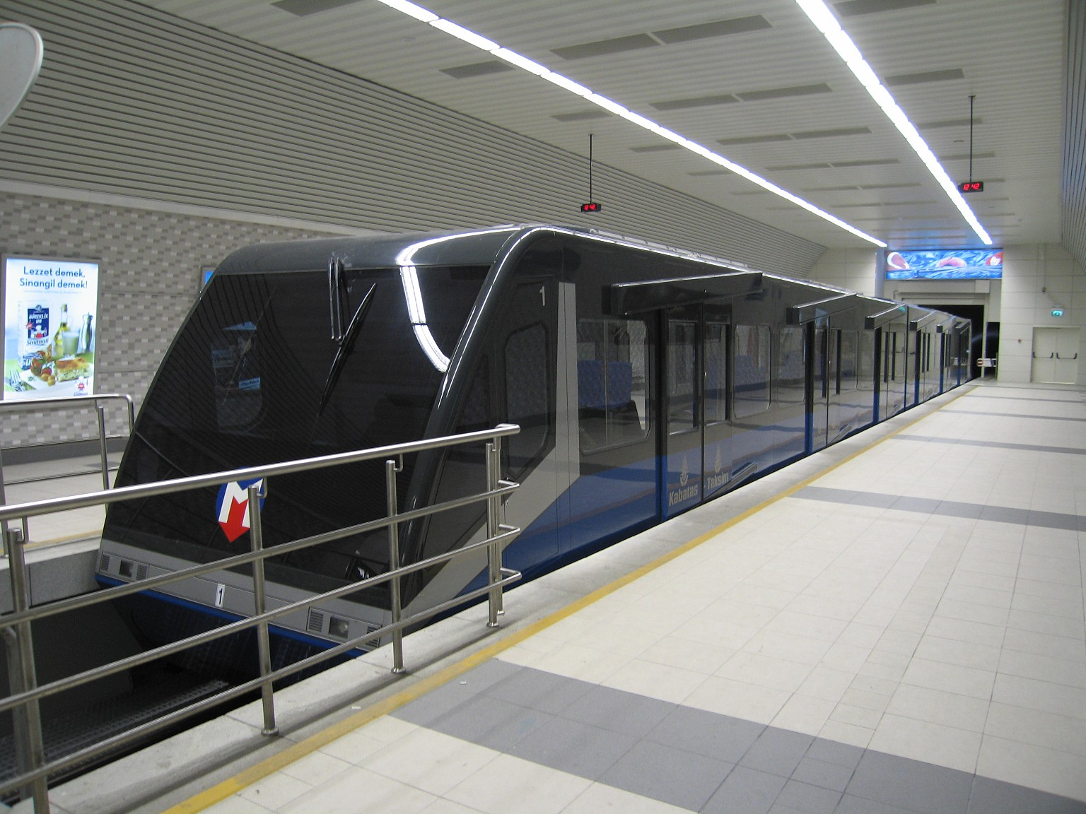 Train of the Istanbul funicular "Füniküler Kabataş-Taksim" at Taksim station